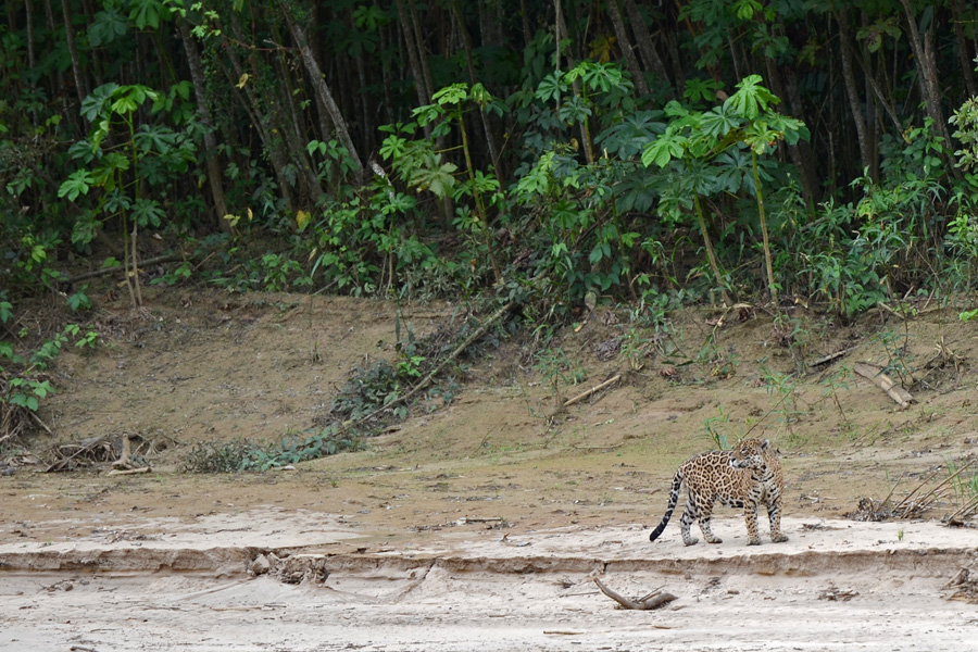 Jaguar (Panthera onca) in Los Amigos river, Madre de Dios, Peru.